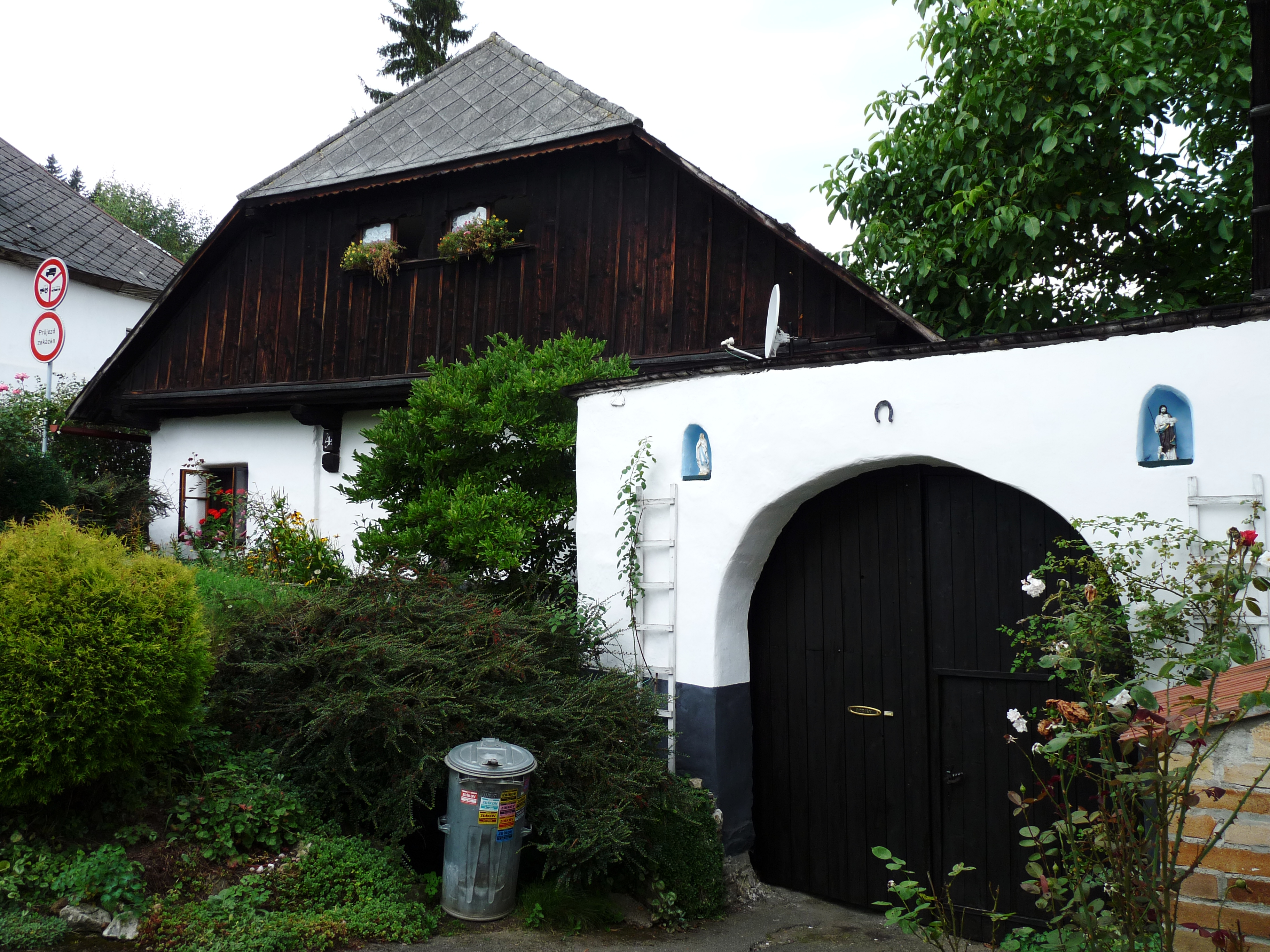 House No 4 in the village of Zdíkovec in Prachatice District, Czech Republic, part of the municipality of Zdíkov. Česky: Dům č.p. 4 ve vsi Zdíkovec v okrese Prachatice, části obce Zdíkov.